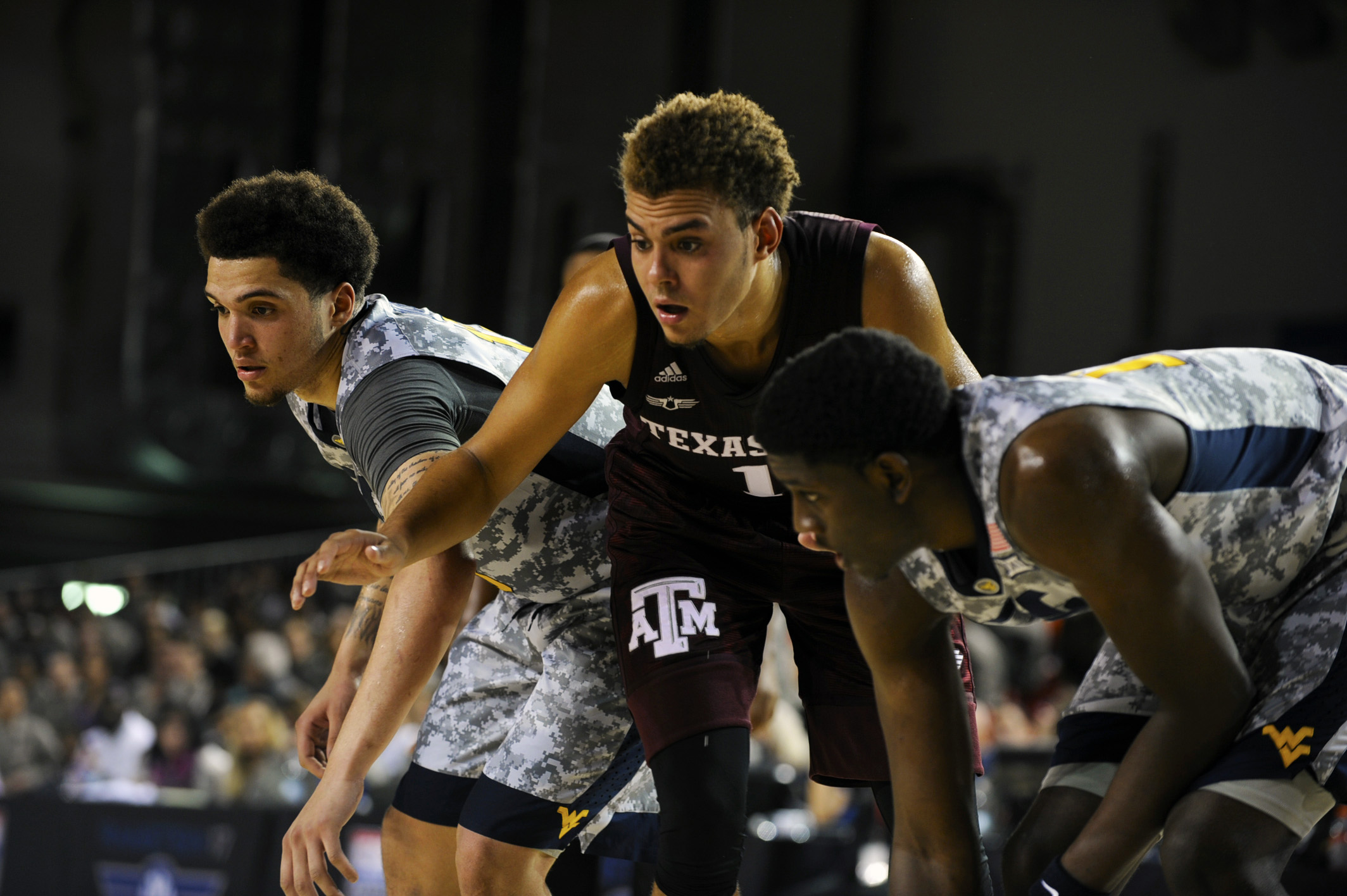 DJ Hogg (center), Texas A&M Aggies forward, establisshes position in preparation for a rebound during the 2017 ESPN Armed Forces Classic basketball game at Ramsein Air Base, Germany, Nov. 11, 2017. The Aggies defeated the West Virginia Mountaineers by a score of 88-65. (U.S. Air Force photo by Tech. Sgt. Sharida Jackson